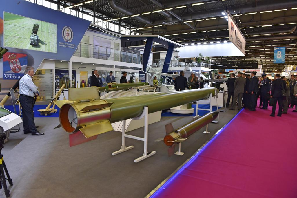 Eurosatory 2018 Jerina 1 Jerina 2 Sumadija MLRS